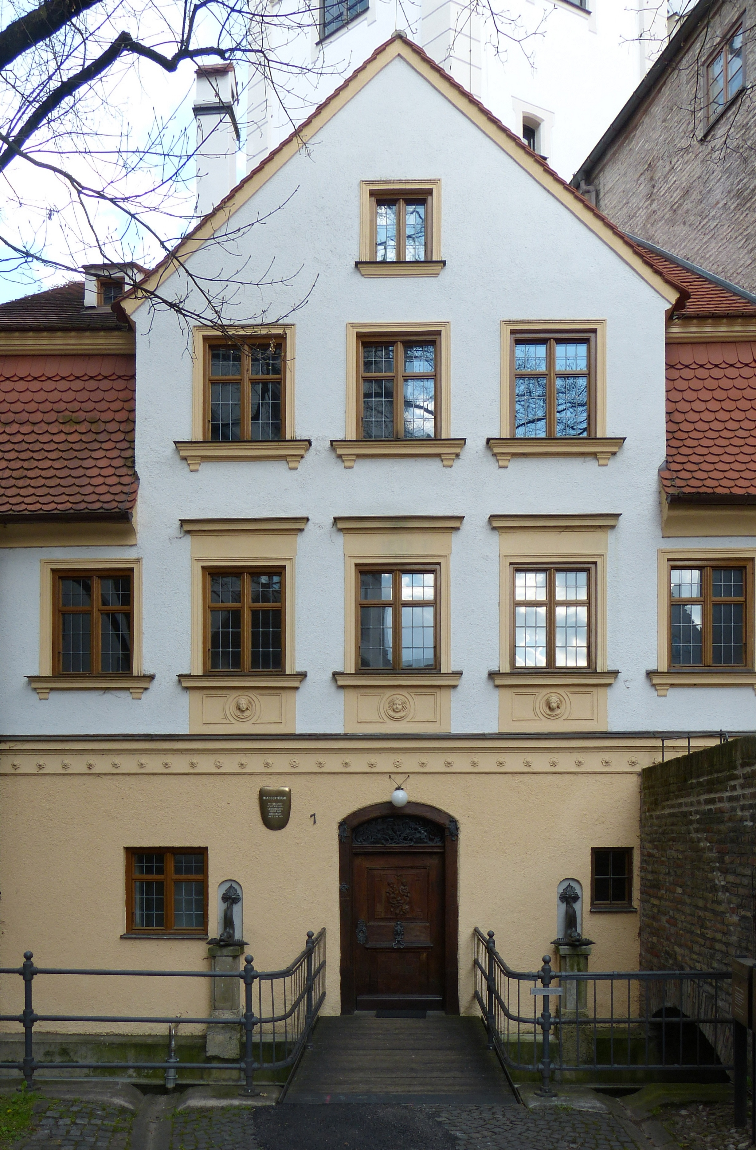 Augsburg, Oberes Brunnenmeisterhaus am Roten Tor. This is a photograph of an architectural monument.